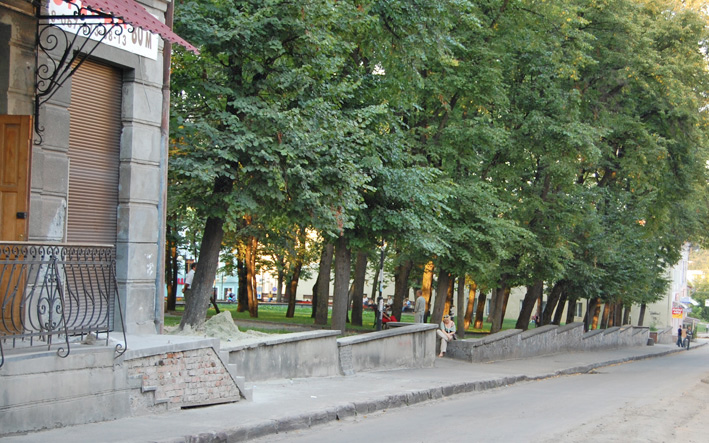 Bruno Schulz's place of death